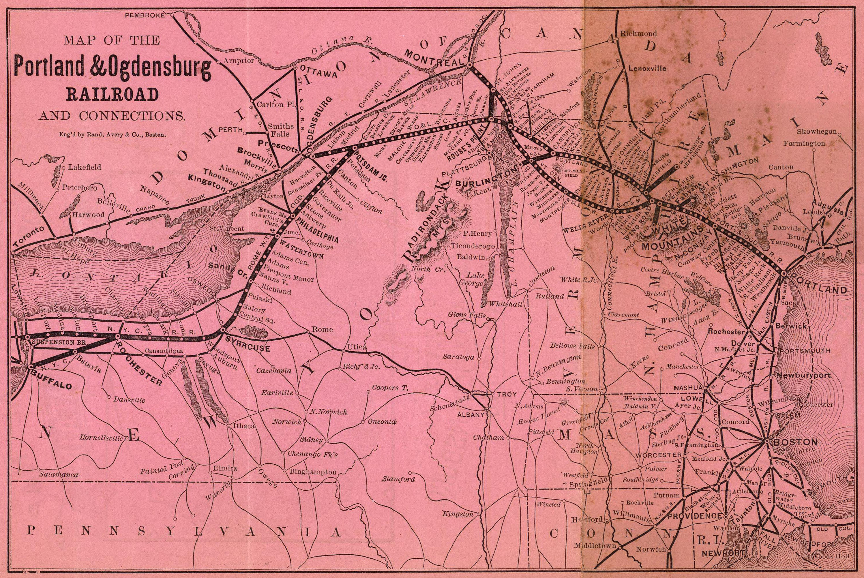 1879 map of the Portland and Ogdensburg Rail Road